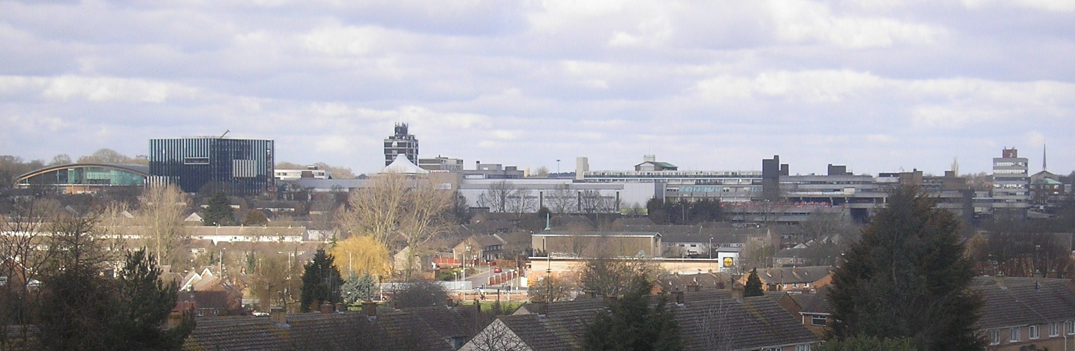 The Corby skyline, seen from Oakley Woods.